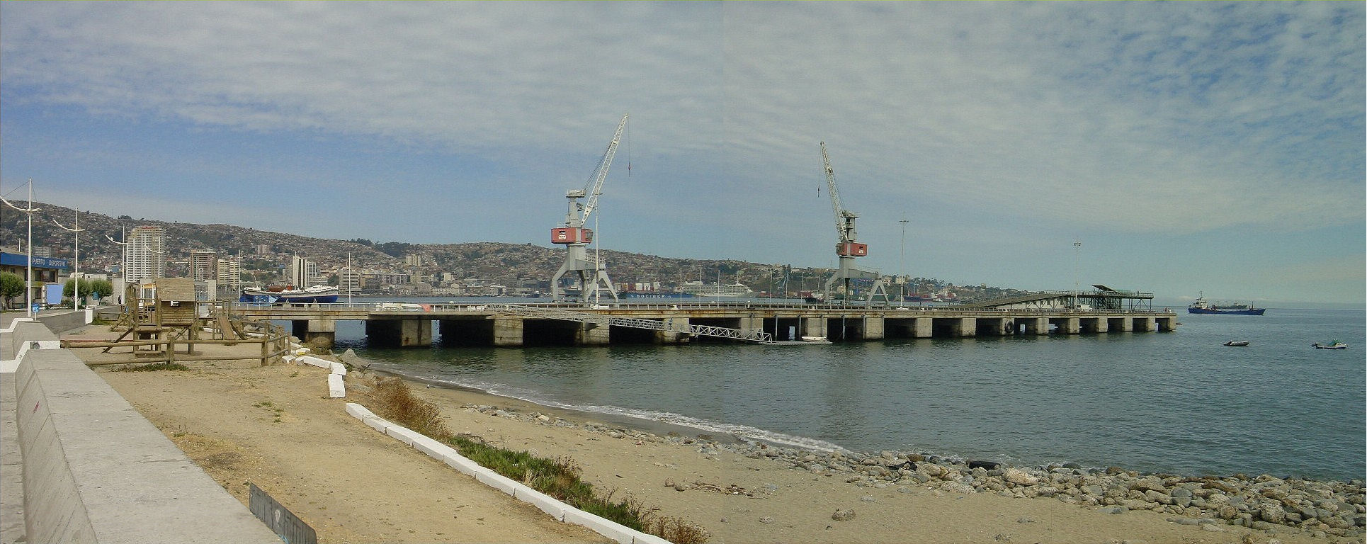 This jetty is open to the public and has a small exhibition hall at the far end.